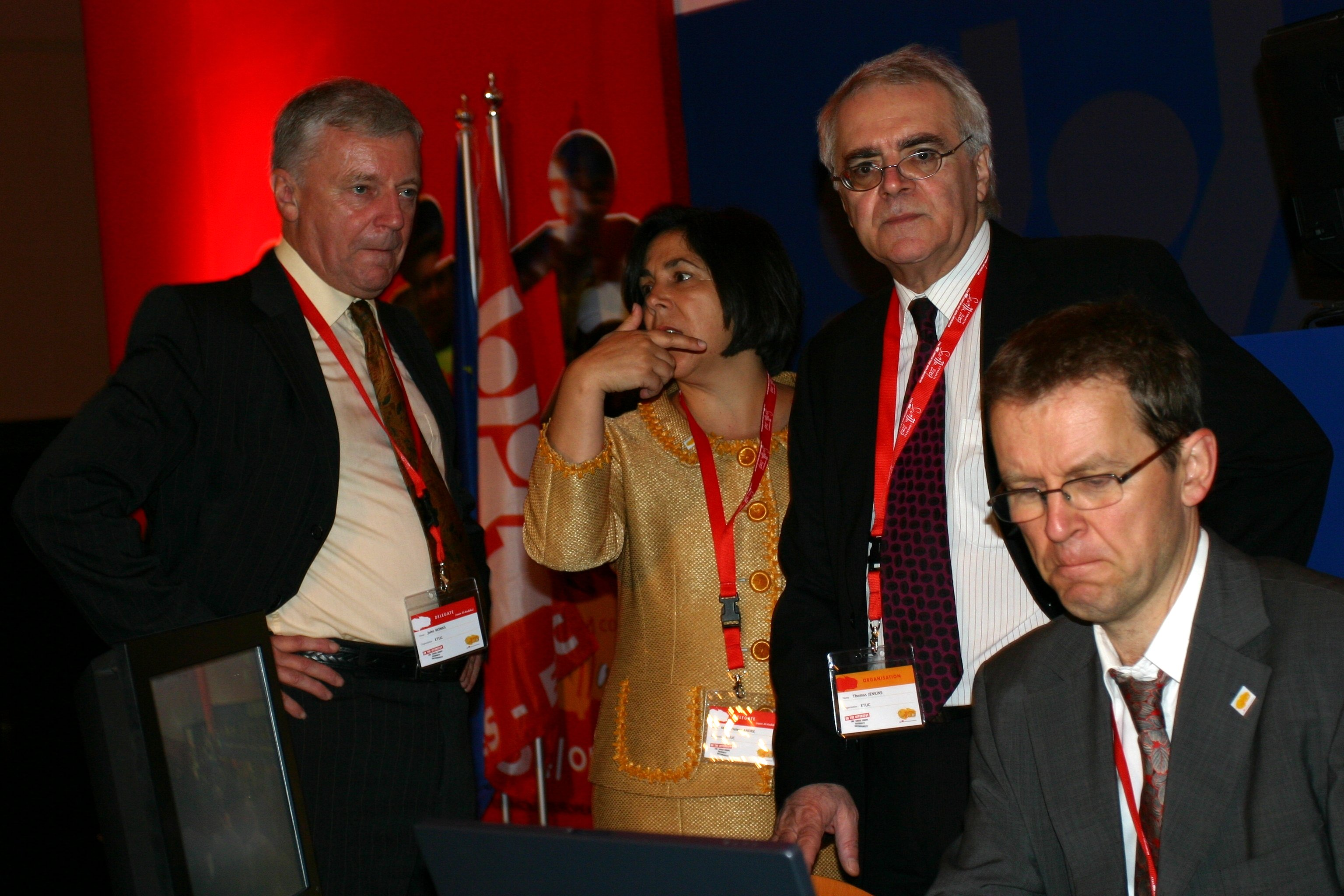 General secretary in ETUC John Monks to the left with Deputy General Secretary Maria Helena André